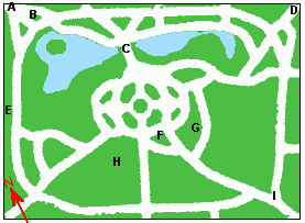 Hand drawn map of Saint Stephens Green, Dublin, Ireland, with key features: A - Fusilier's Arch B - O'Donovan Rossa C - O'Connell Bridge D - WolfeTone & Famine Memorial E - Lord Ardilaun F - Markievicz bust G - Children's playground H - Bandstand I - Three Fates